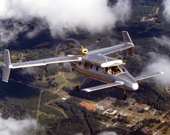 OMAC Laser 300 during flight testing